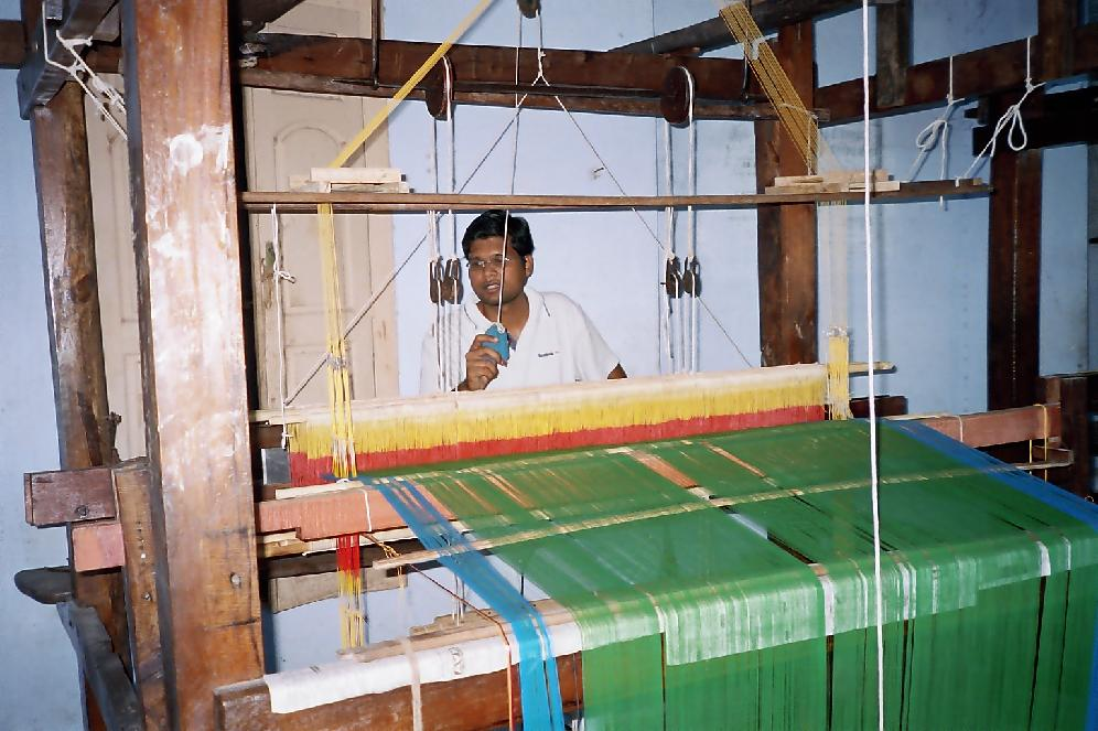 Photograph of a person working on a Loom in Ettayapuram.